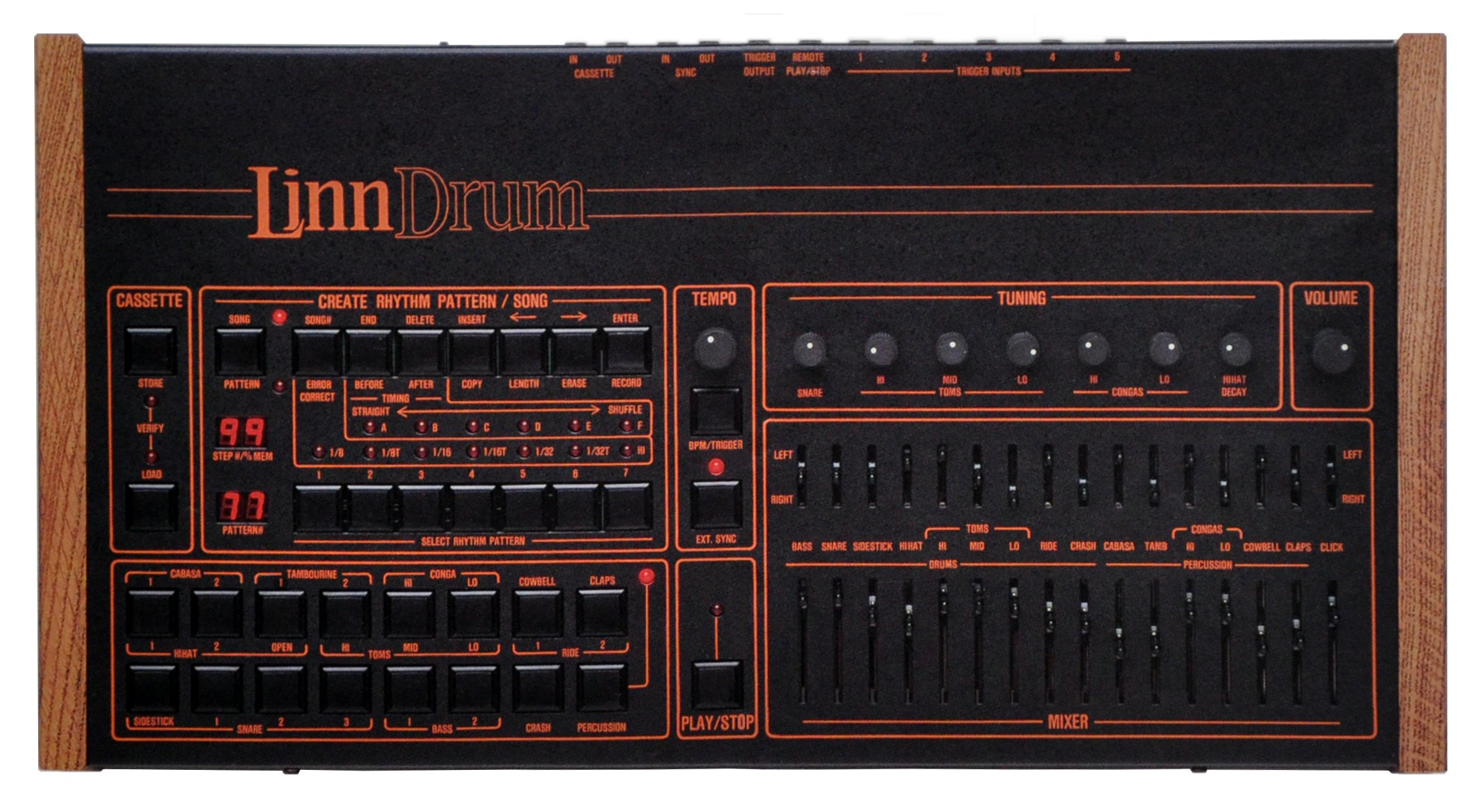 LinnDrum - digital drum machine - brochure page 2 and 3 - front panel close up